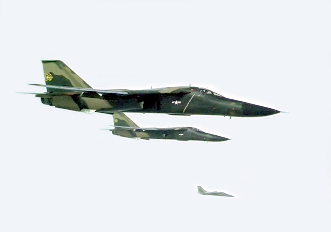 Three U.S. Air Force General Dynamics F-111As of the 428th Tactical Fighter Squadron returning from a "Combat Lancer" mission in 1968. The first production F-111A deliveries to the USAF took place on 18 July 1967 to the 428th, 492nd and 430th Tactical Fighter Squadrons of the 474th Tactical Fighter Wing based at Cannon AFB, New Mexico (USA). In early 1968, the wing was reassigned to Nellis AFB, Nevada. Shortly thereafter, the USAF decided to rush a small detachment of F-111As to Southeast Asia under a program known as "Combat Lancer". Six 428th TFS F-111As were allocated to the "Combat Lancer" program, and departed Nellis AFB for Takhli RTAFB on 15 March 1968. By the end of that month, 55 night missions had been flown against targets in North Vietnam, but two aircraft had been lost. 66-0022 had been lost on 28 March, and 66-0017 on 30 March. Replacement aircraft had left Nellis, but the loss of a third F-111A (66-0024) on 22 April halted F-111A combat operations until 1972. It turned out that the three F-111A losses were not due to enemy action but were caused by wing and tail structural defects.